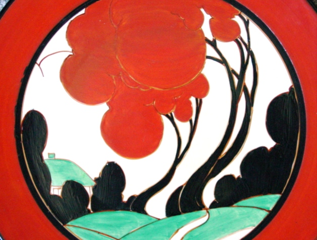 Clarice Cliff's most popular pattern in her Fantasque range was probably 'Autumn'. It was first created in startling red (coral) green and black in 1930 but many other colourways followed between 1921 and 1935